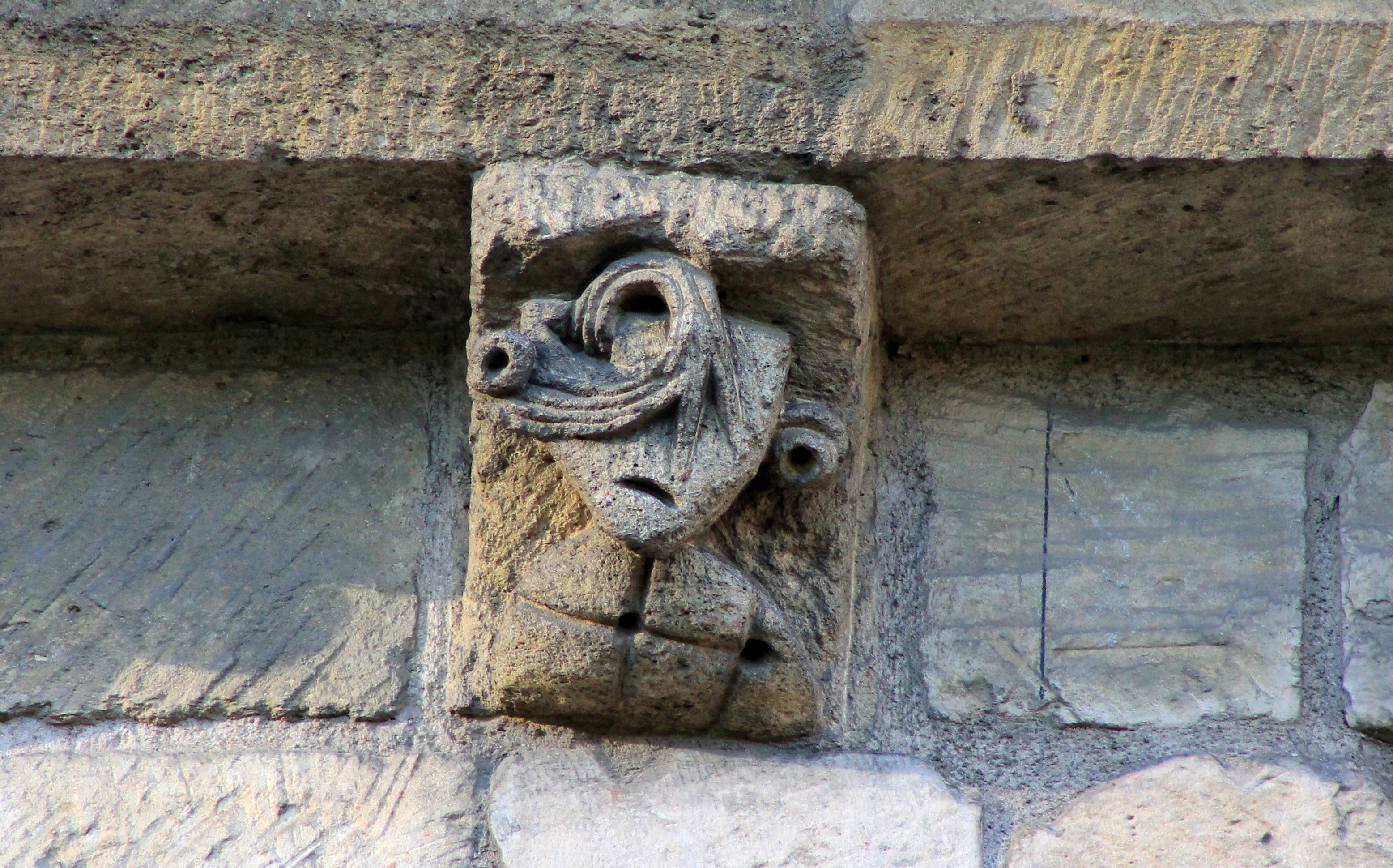 Corbel of the Château de Caen 12th century showing Harold's face killed from an arrow to his right eye at the Battle of Hastings.